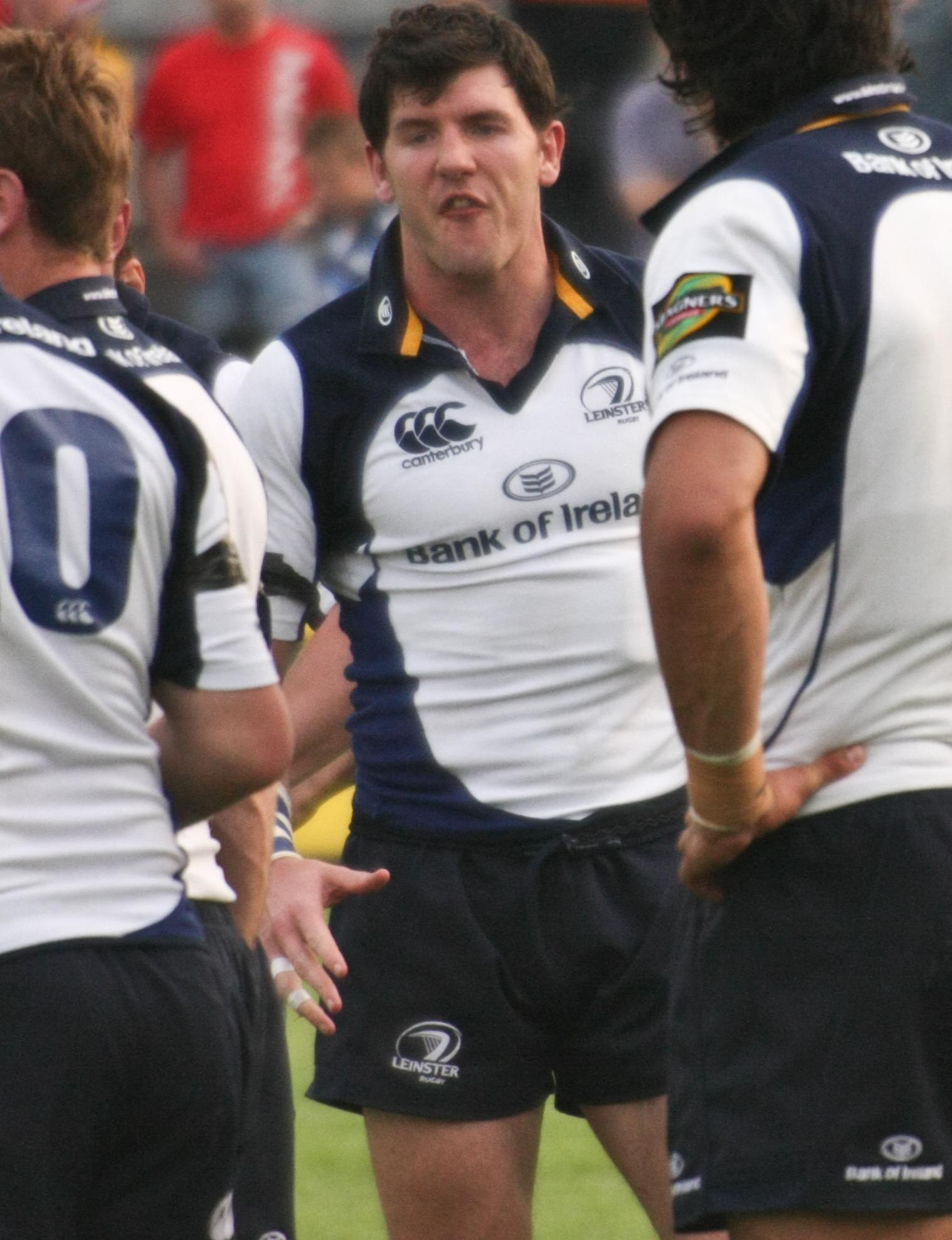 Dragons vs Leinster